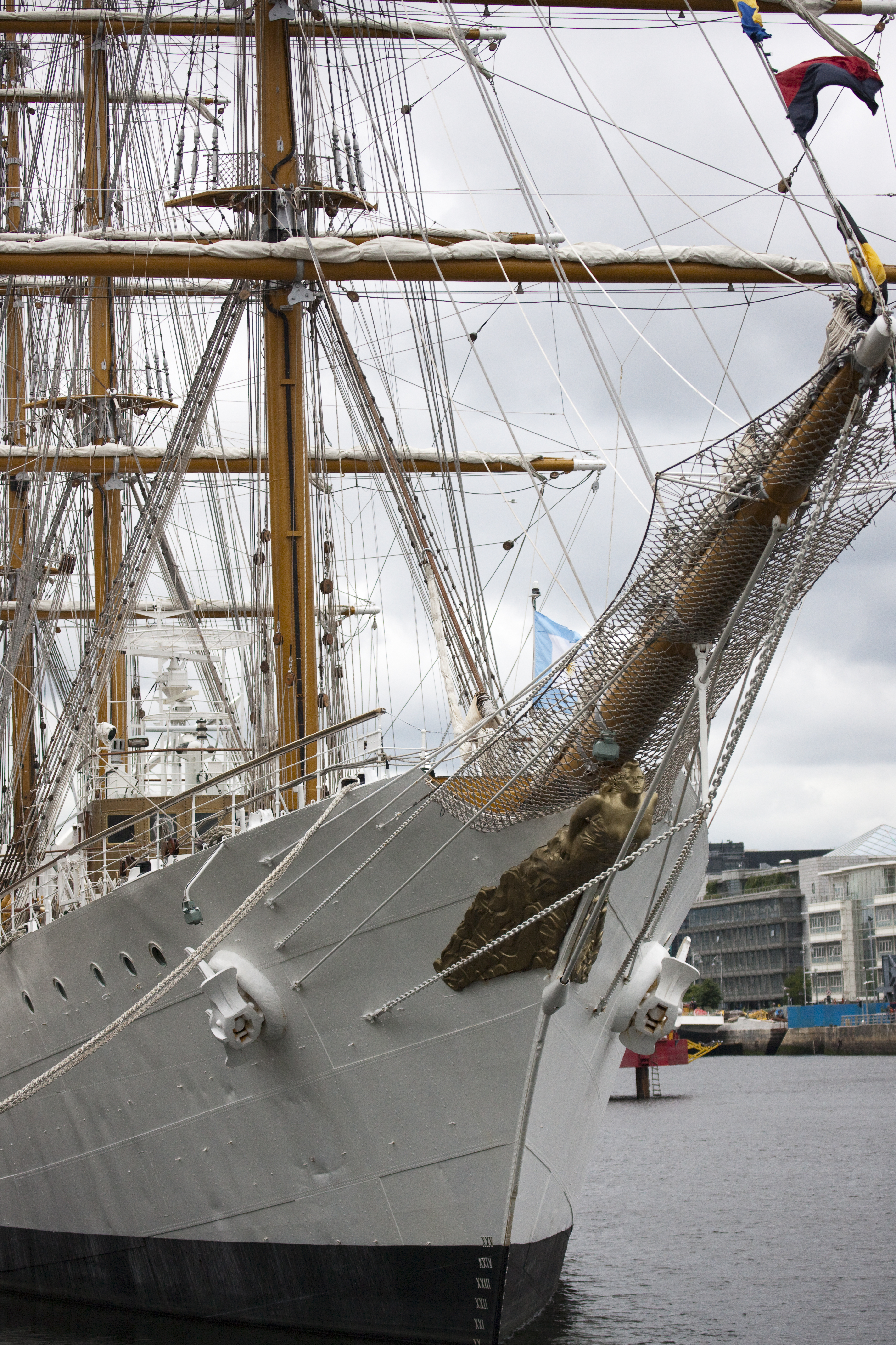 ARA Libertad (Q-2) is a tall ship which serves as a school ship in the Argentine Navy. She was built in the 1950s at the Rio Santiago shipyards near Buenos Aires, Argentina. Her maiden voyage was in 1962, and she continues to be a school ship with yearly instruction voyages for the graduating naval cadets. She has just finished (April 2007) undergoing a general overhaul which includes the addition of facilities for female cadets and crew in line with current diversity policies in the Navy and the updating of the engines and navigation technology. Her main characteristics are: Length (including bowsprit): 103.75m; Beam: 14.31m; Draft: 6.60m; Displacement: 3765 Tonnes; Masts: 3; Crew: 357 souls (including 150 naval cadets). Rigging: Square rigged. Three masts (Fore, Main and Mizzen with boom) and bowsprit, with double topsails and 5 yardarms per mast, which can balance up to 45 degrees on each side. Five jibs are fixed to the bowsprit, the foremast has 5 square sails and two jibs, the mainmast has 5 square sails and 3 jibs and the mizzen has 5 square sails and a spanker. Sail area: 2.652 sq. metres; max. height of mainmast 56,2 metres. Armament: Four 47 mm cannons, 1891 model, which were transferred from the previous School Ship ARA Presidente Sarmiento used as a salute battery. She won the Boston Teapot Trophy in 1966, 1976, 1981, 1987, 1992 and 1998 In 1966 she established the world record for transatlantic crossing (only sail navigation) between Capr Race (Canada) and Dursey Island (Ireland), 1,741.4 nautical miles (3,225.1 km) in 6 days and 4 hours.